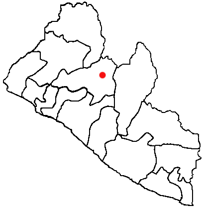 Gbarnga, Liberia Location Map; created with the GIMP. Made by User:Acntx.